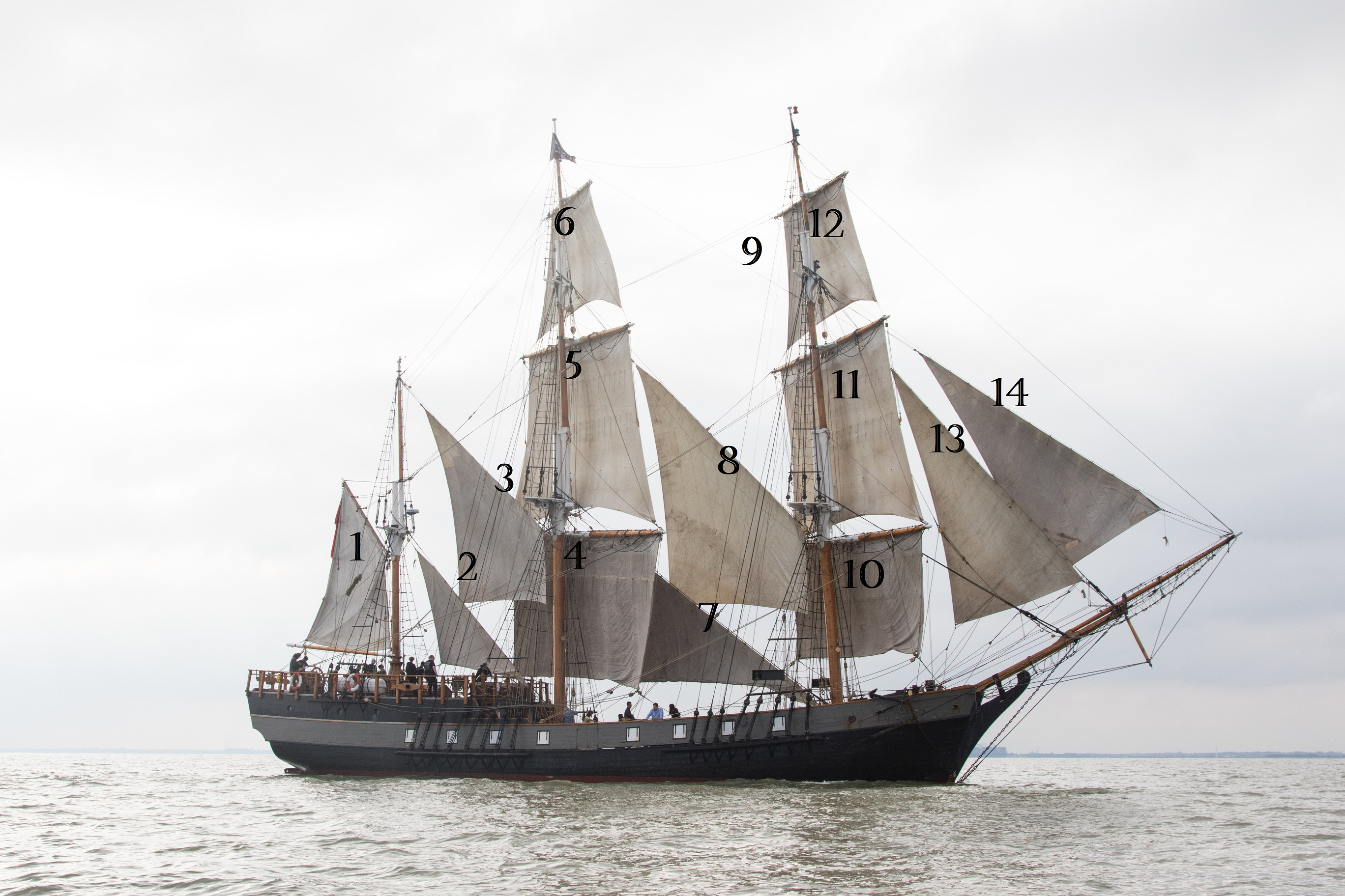 This shows the sail plan of the vessel